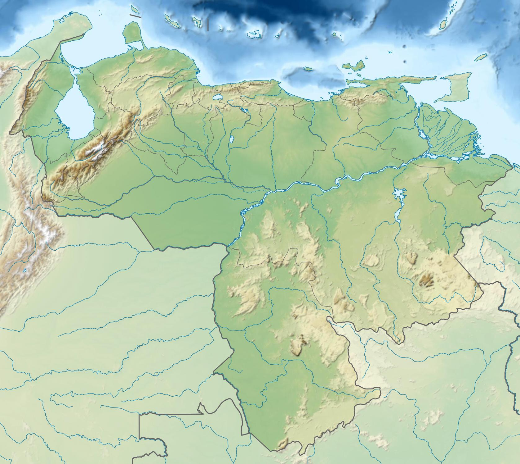 Physical Location map of Venezuela Equirectangular projection. Geographic limits of the map